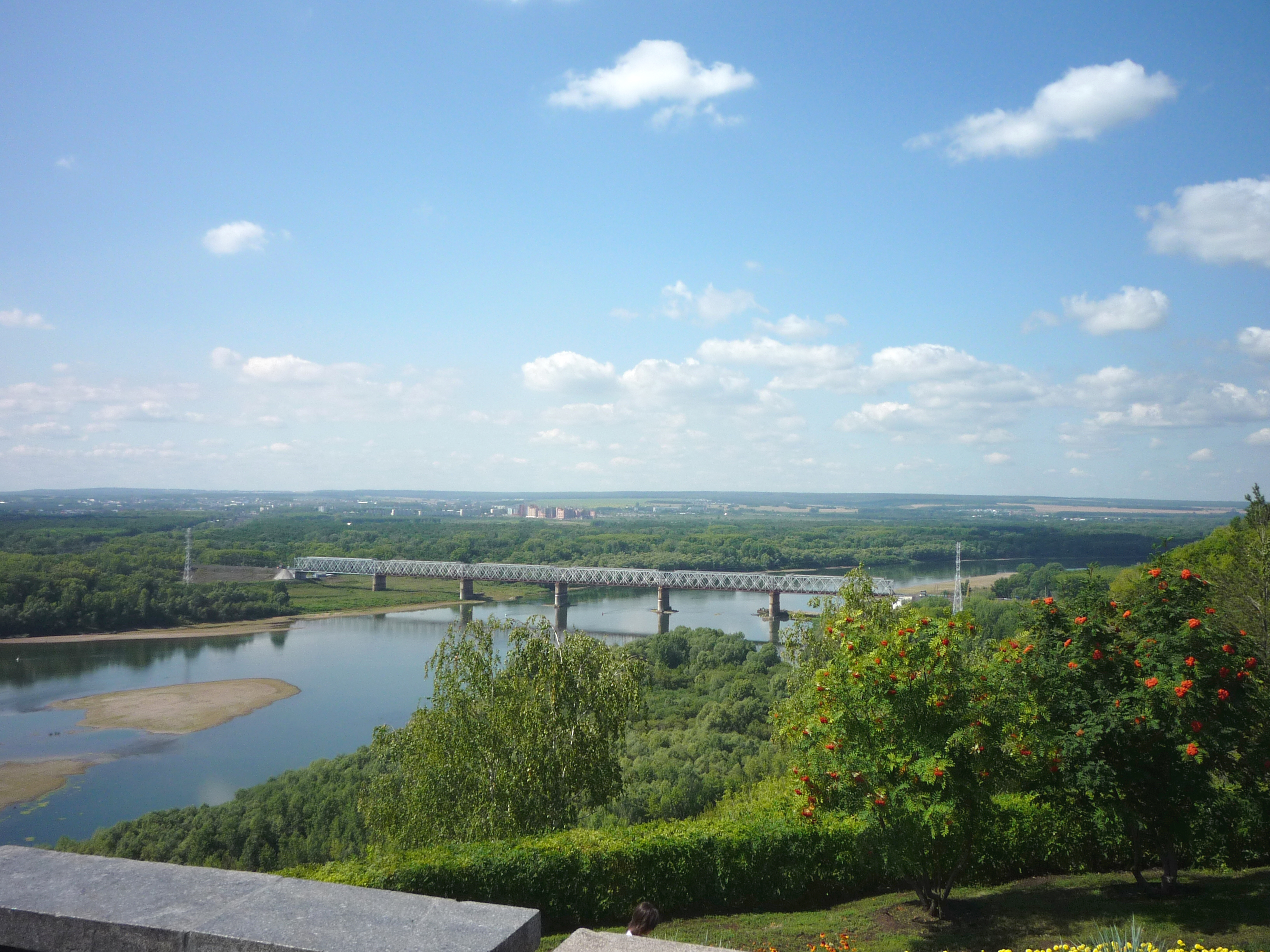 View on Belaya river and Ufa outskirts. Ufa, Bashkortostan, Russia.